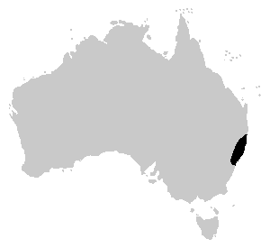 Distribution of the Litoria phyllochroa.